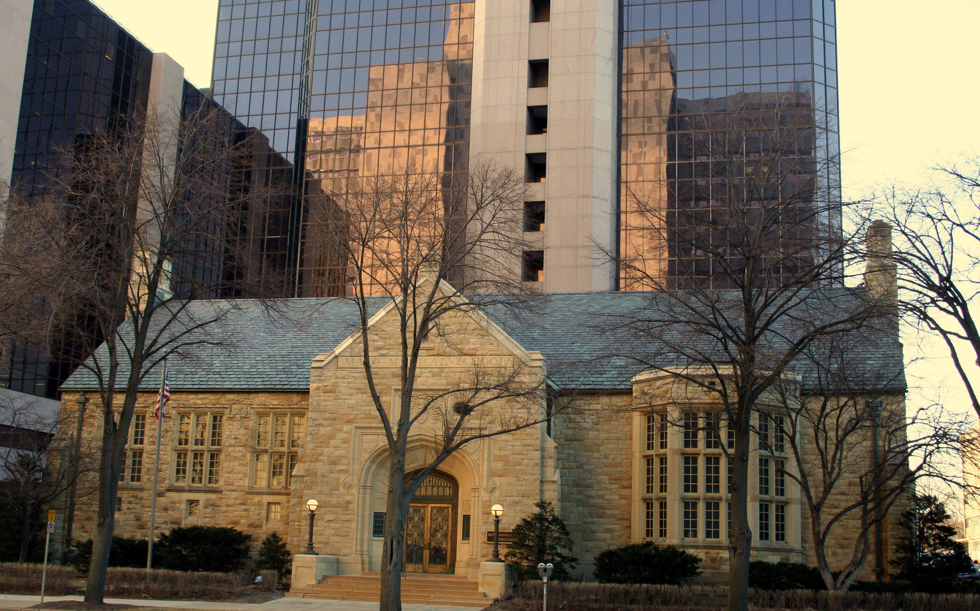 The Mayo Medical School Student Center (historic Rochester Public Library) with other Mayo Clinic buildings behind it, seen from across Second Street SW in Rochester, Minnesota.